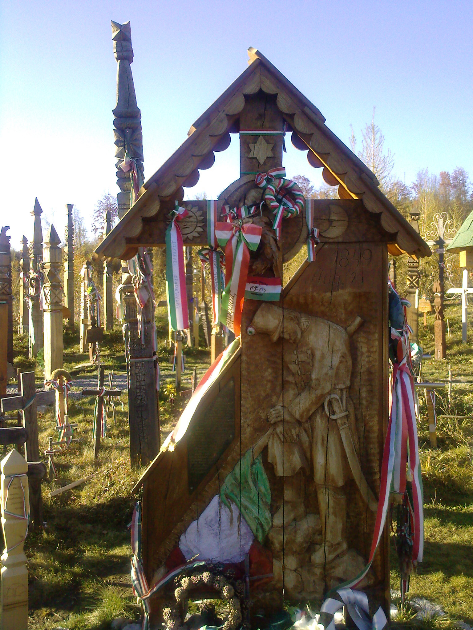 Memorial Monument, Cozmeni, Harghita County